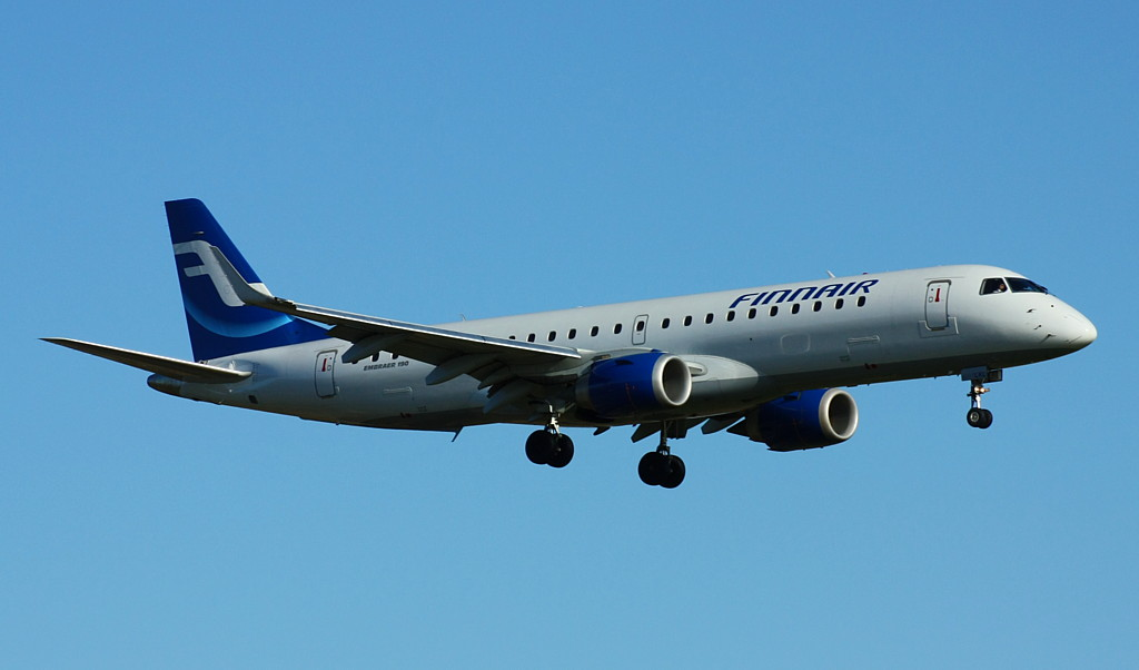 A Finnair Embraer 190 aircraft landing at Manchester Airport